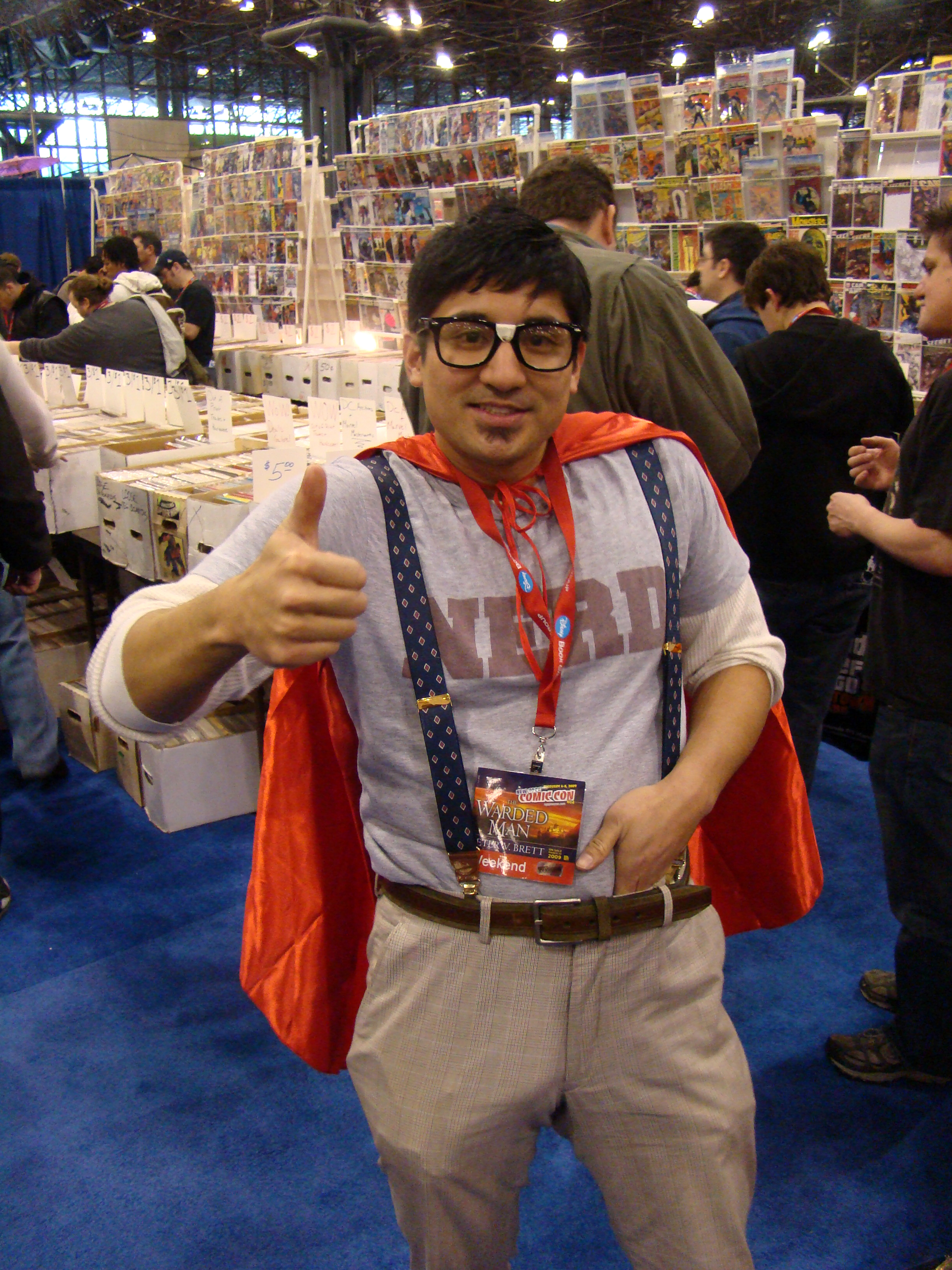 nerd New York Comic-Con, Saturday, February7th, 2009. If you see yourself in this or any of my other pictures, let me know in the comments, or by emailing me at loser: [at] istolethe [dot] tv.